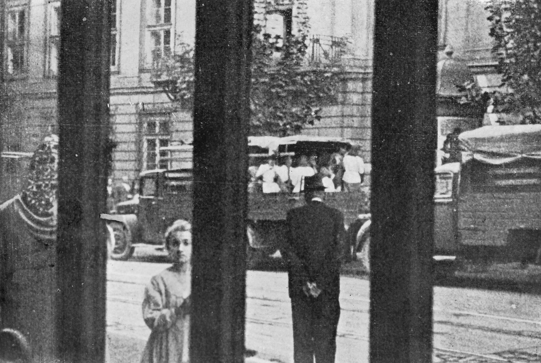 Łapanka on placu Franciszkański Square.